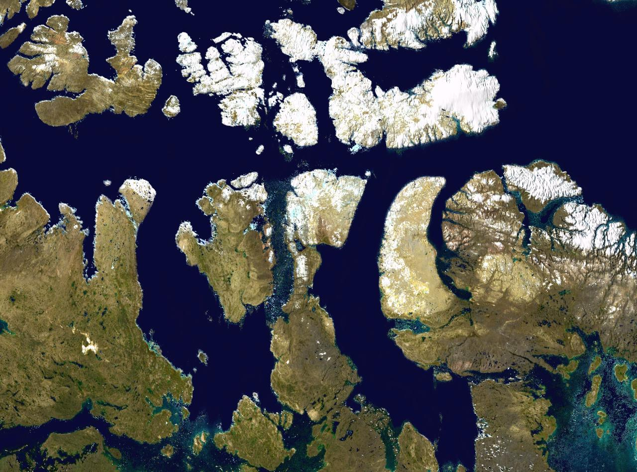 Somerset Island in the Canadian arctic.